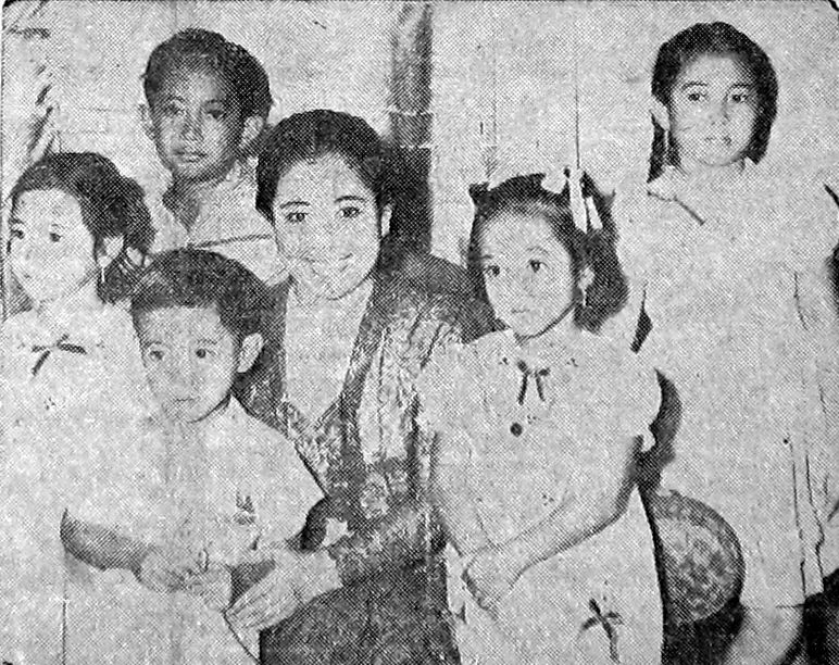 The family of Indonesian president Sukarno. Adult, center: Fatmawati (age 36), celebrating her birthday. Behind her, standing: Guntur (age eleven). Far right, standing: Megawati Sukarnoputri (age nine); beside her, Sukmawati (age four). Far left: Rahmawati (age five). On Fatmawati's lap: Guruh Sukarnoputra (age three)